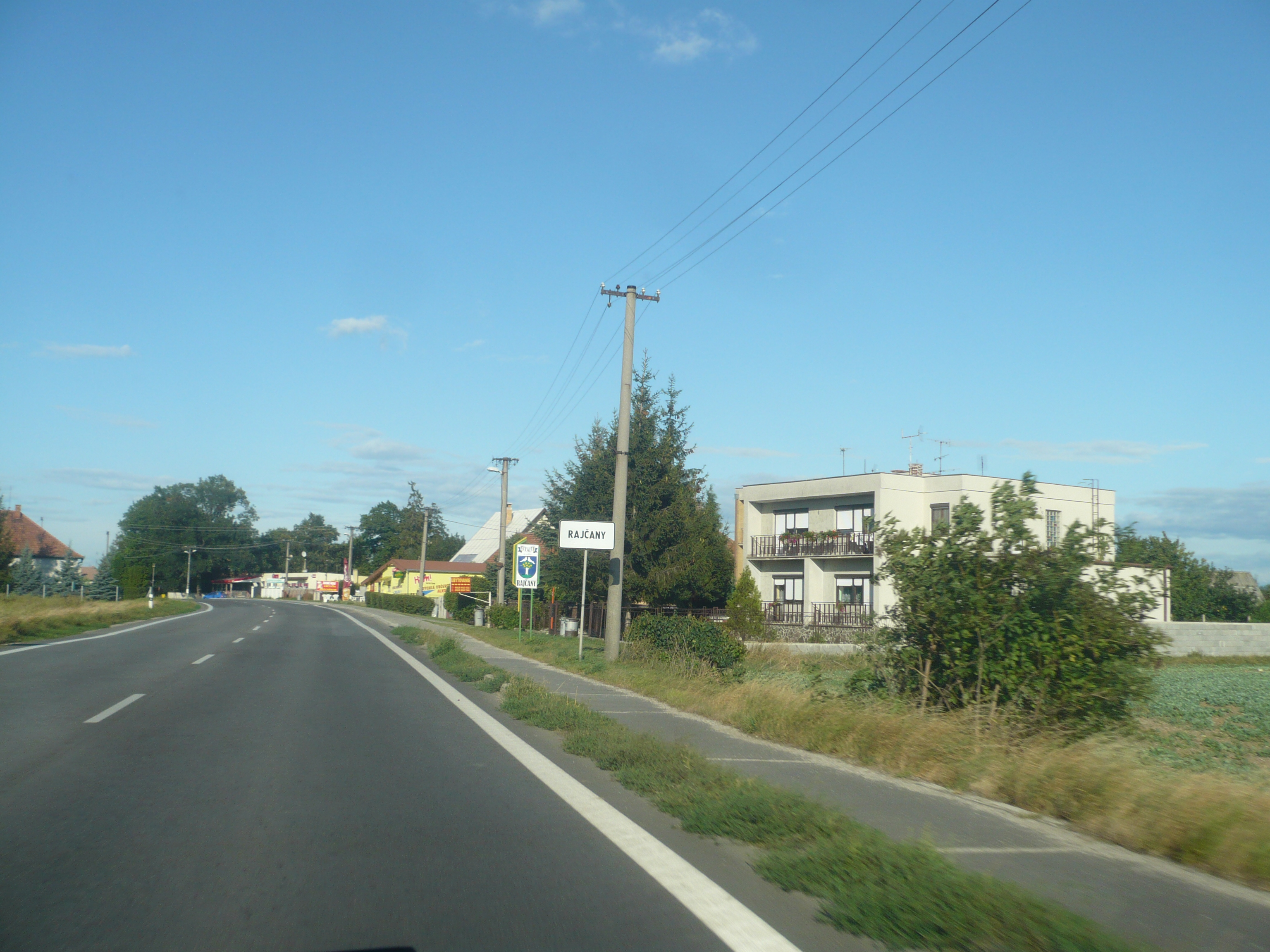 Entry to the village